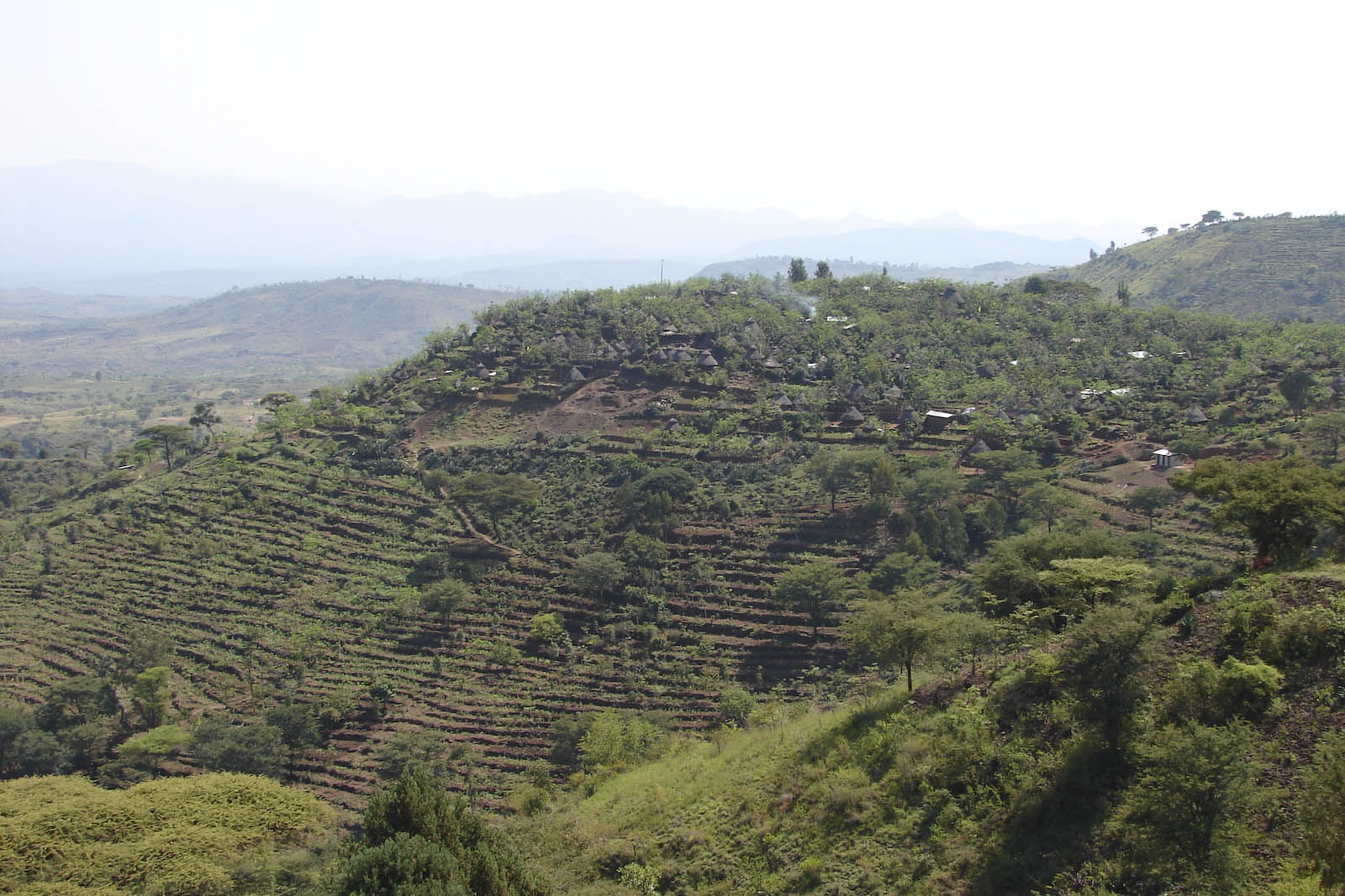 Terraces in Konso country (Ethiopia)